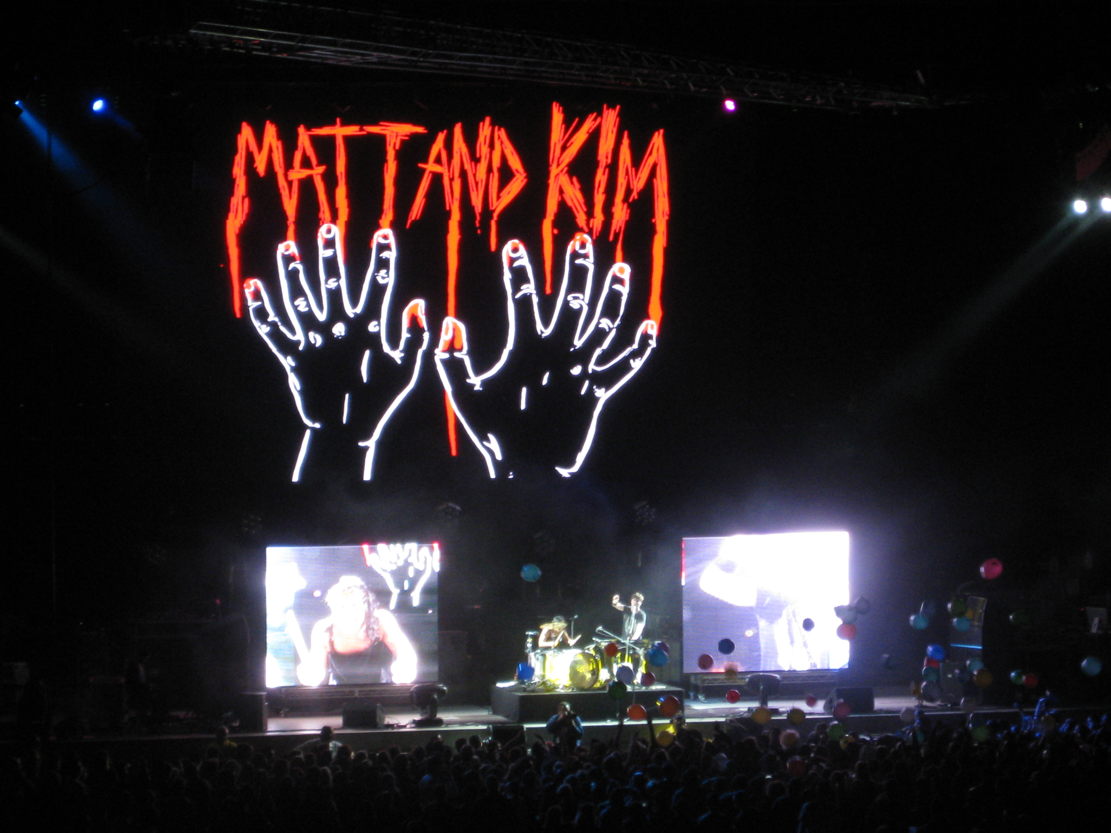 Matt & Kim performing October 6, 2011 at the Cricket Wireless Cricket Wireless Amphitheatre in Chula Vista, California. Singer/drummer Kim Schifino (left) and singer/keyboardist Matt Johnson (right).